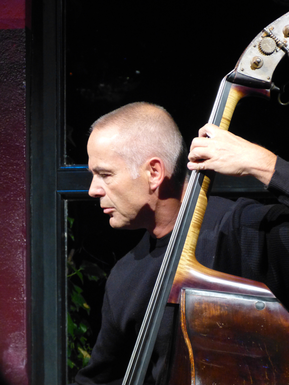 Dieter Manderscheid during the Memorial for Peter Kowald at Stadtgarten Cologne, Germany, September 21st, 2012